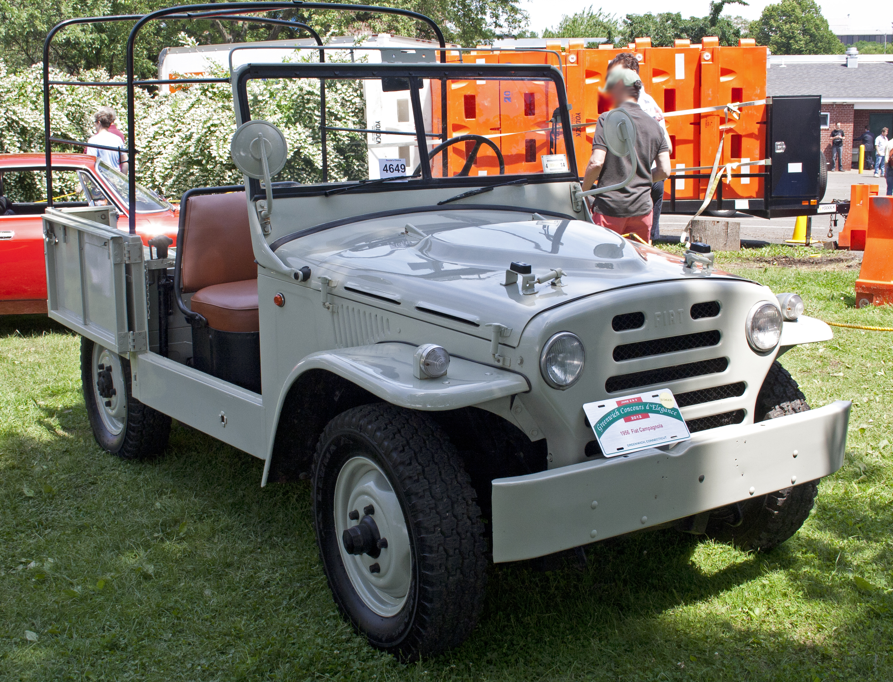 1956 Fiat Campagnola (1101) at the 2012 Greenwich Concours d'Elegance.